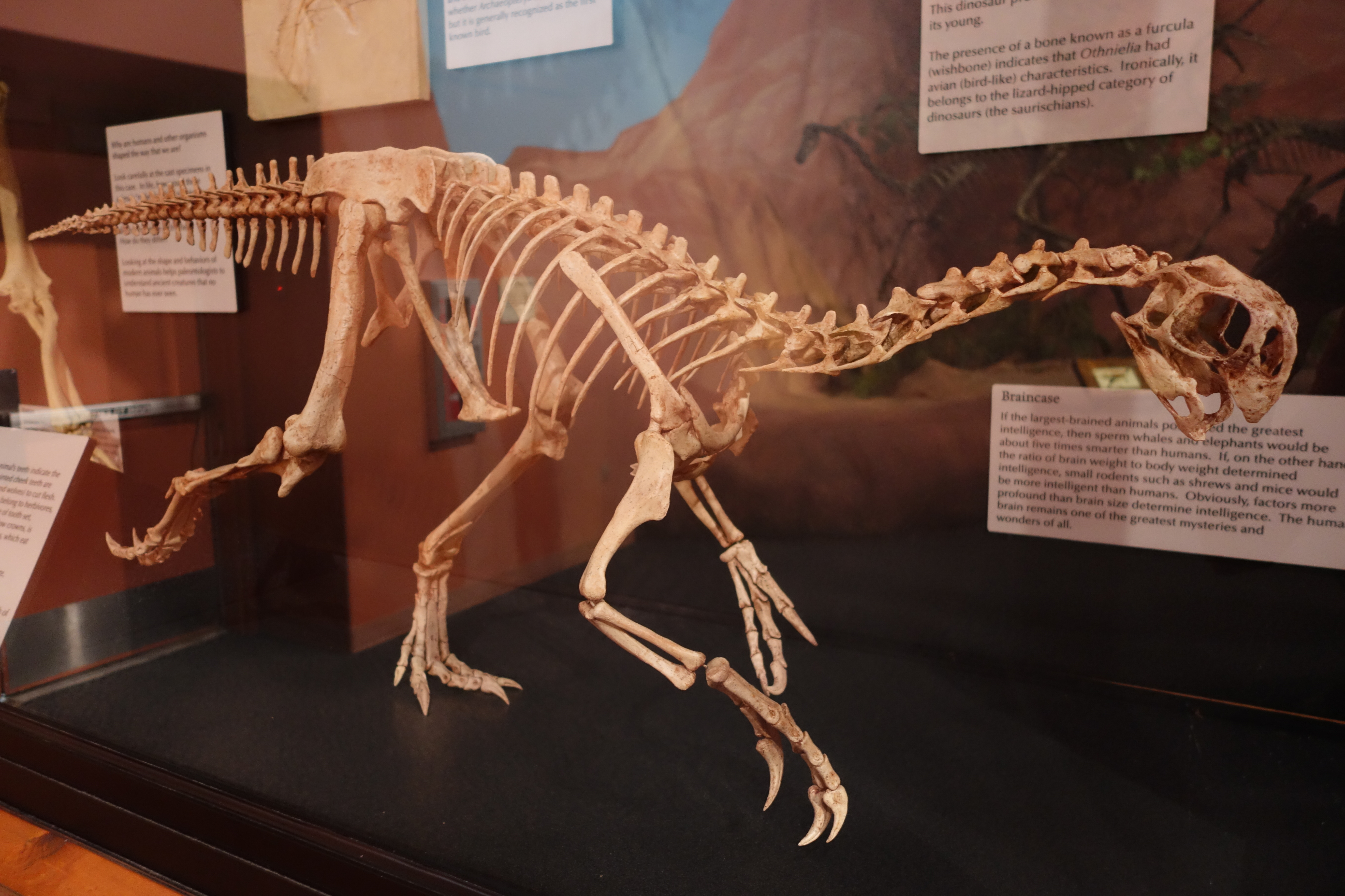 Ajancingenia mounted cast (labeled as Ingenia), on display at the Museum of Ancient Life, Utah.